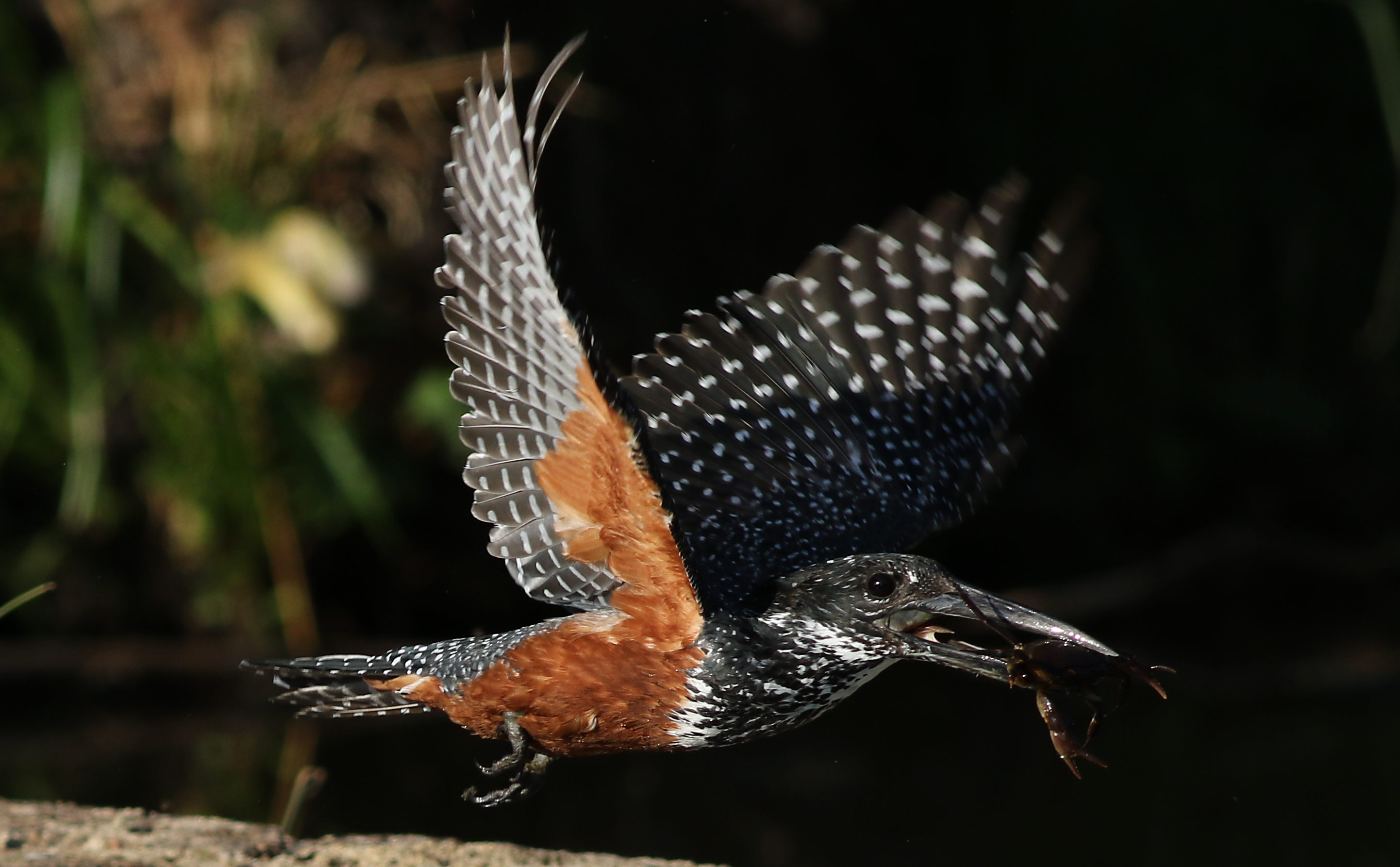 Giant Kingfisher, Megaceryle maxima at Rietvlei Nature Reserve, South Africa